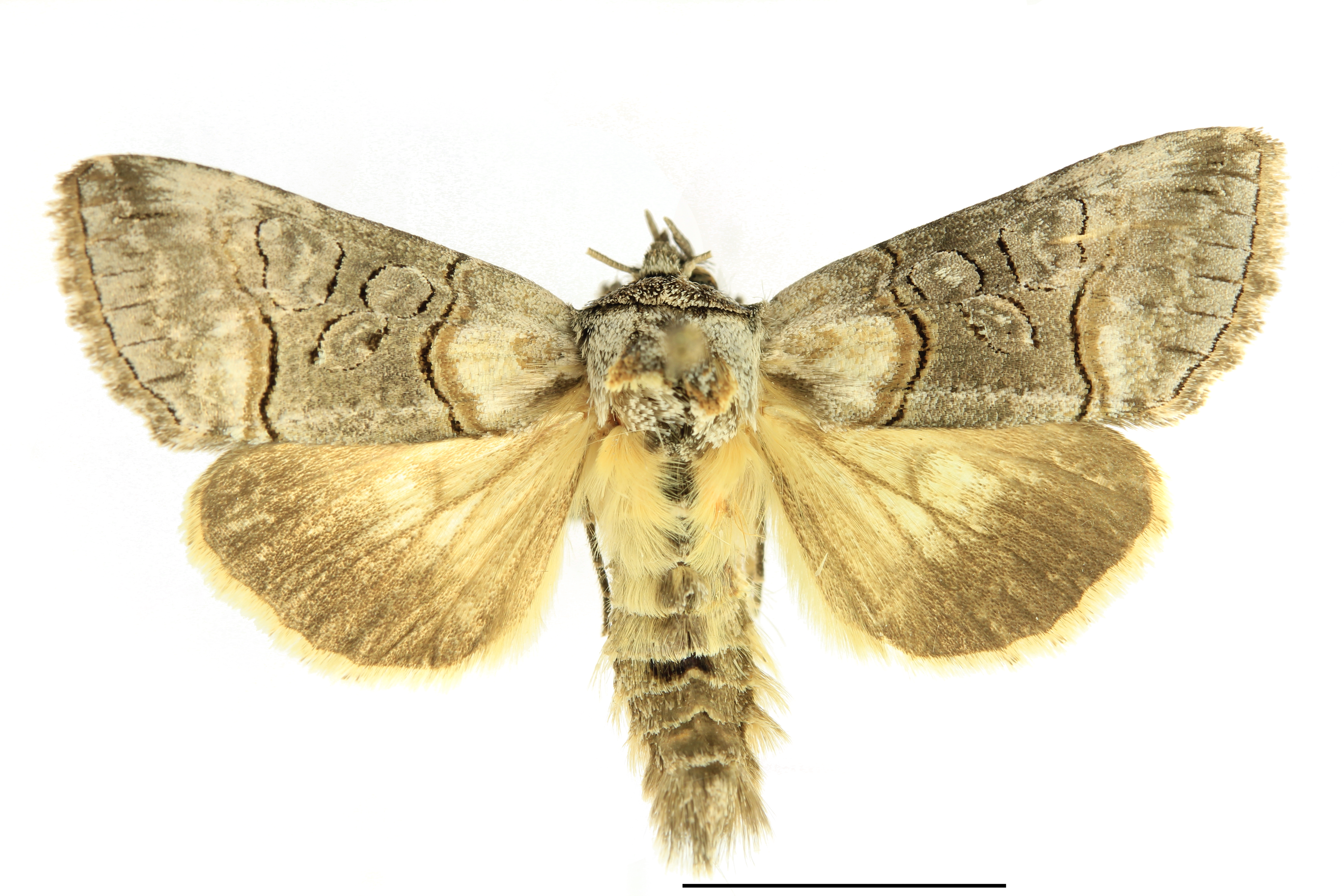 Abrostola asclepiadis, Insect collection SLU, Uppsala